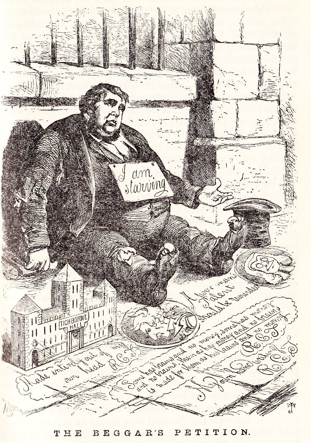 A cartoon of the Tichborne Claimant, satirising his efforts to raise funds for his legal and personal expenses in 1872 having earlier been made bankrupt. The cartoon was published in Judy, or the London Serio-Comic Journal on 24 April 1872.